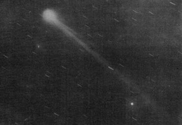 Comet C/1911 O1 (Brooks)